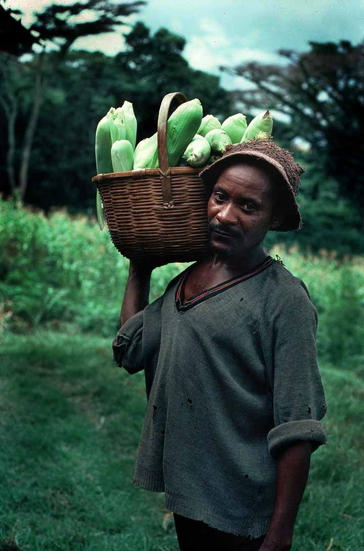 Zimbabwean man with green maize.